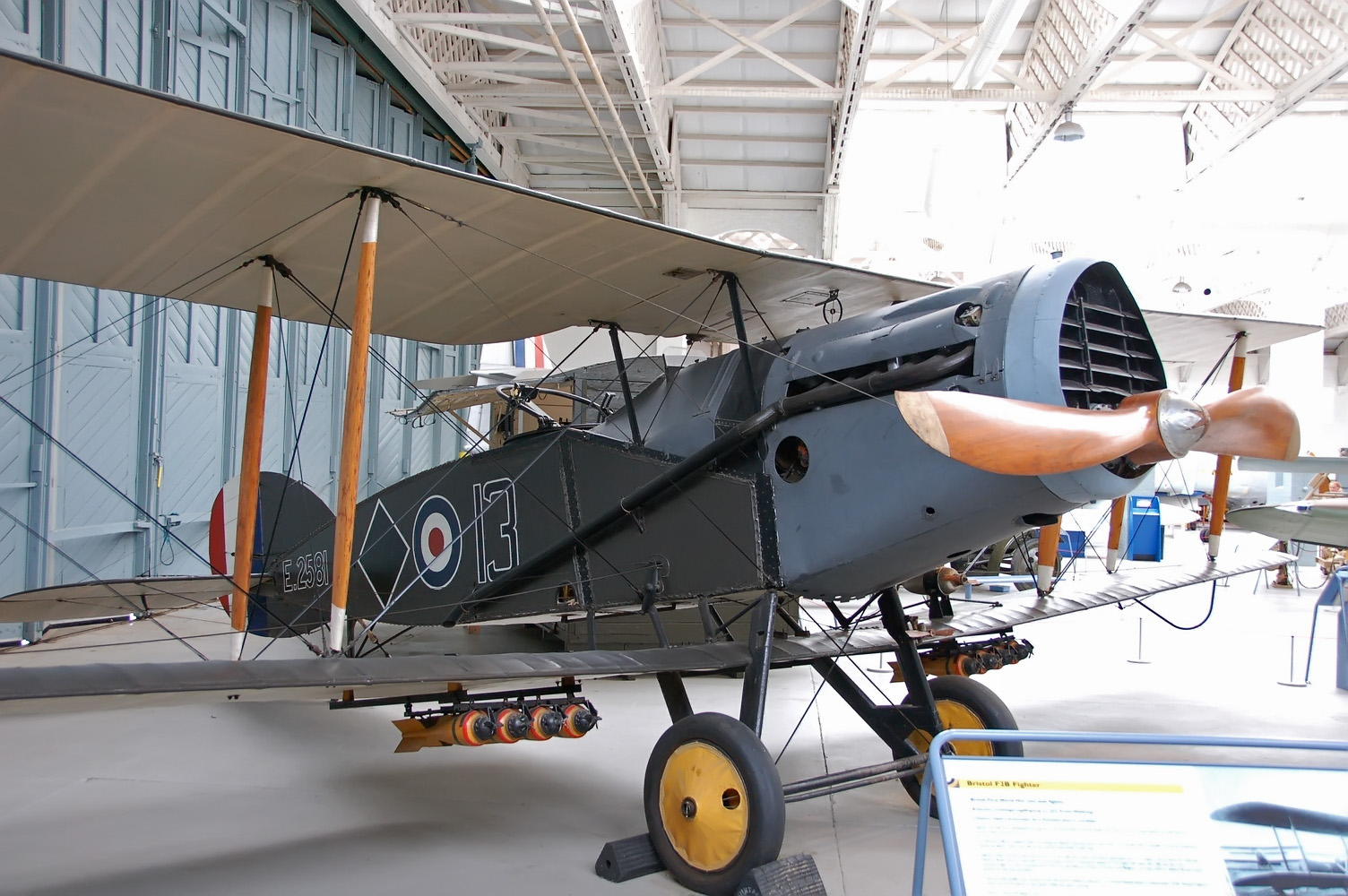 A Bristol F.2 Fighter at the Imperial War Museum, Duxford, photographed by Robin Stevens on 26 May 2007.